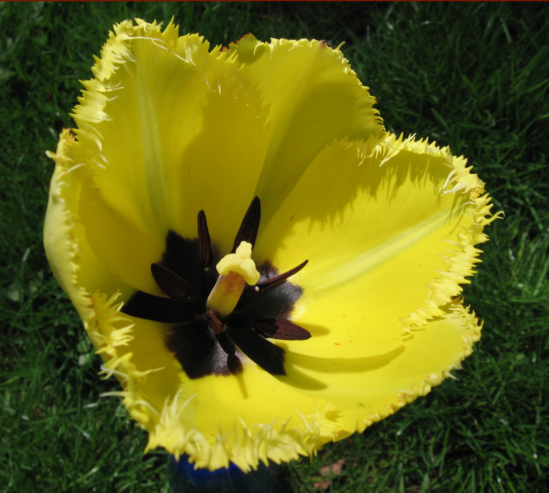 A yellow, fringed tulip. The fringing is caused by a selectively bred mutation.